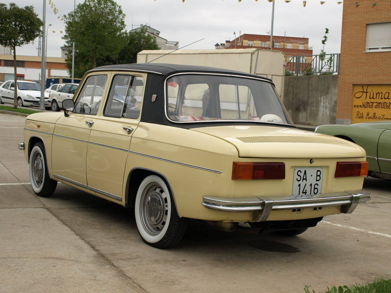 Spanish built Renault 8 (year 1974) at exhibition in Morales del Vino (Zamora, Spain), May 2008